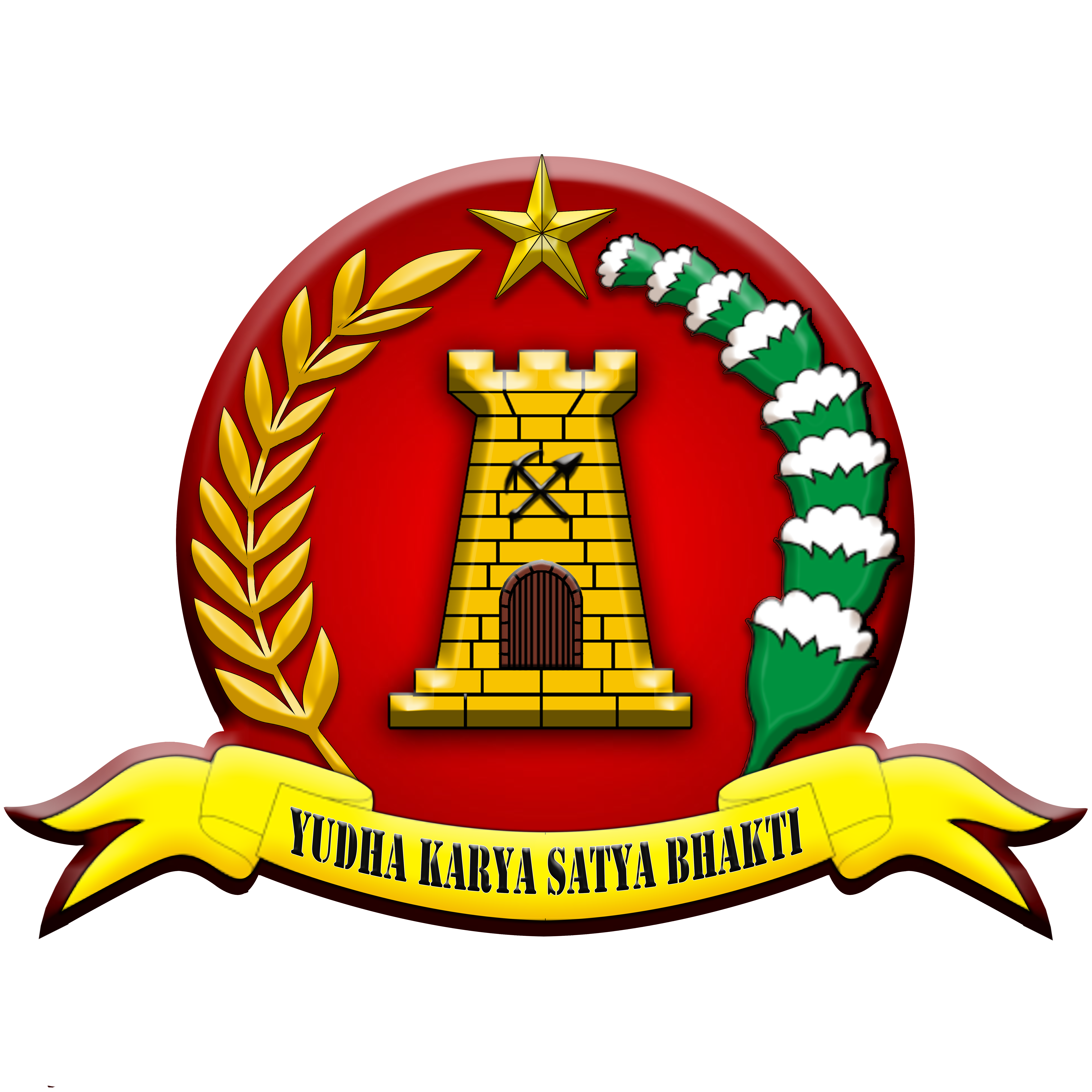 enginering corps of indonesian army